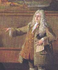 A detail from Marco Ricci's 1709 painting "Rehearsal for an Opera". Ricci was a stage painter at the Queen's Theatre, Haymarket. The singer depicted is believed to be the theatre's leading alto castrato, Nicolo Grimaldi, known as "Nicolini". At least two copies of the painting have been made and sold (see provenance document).